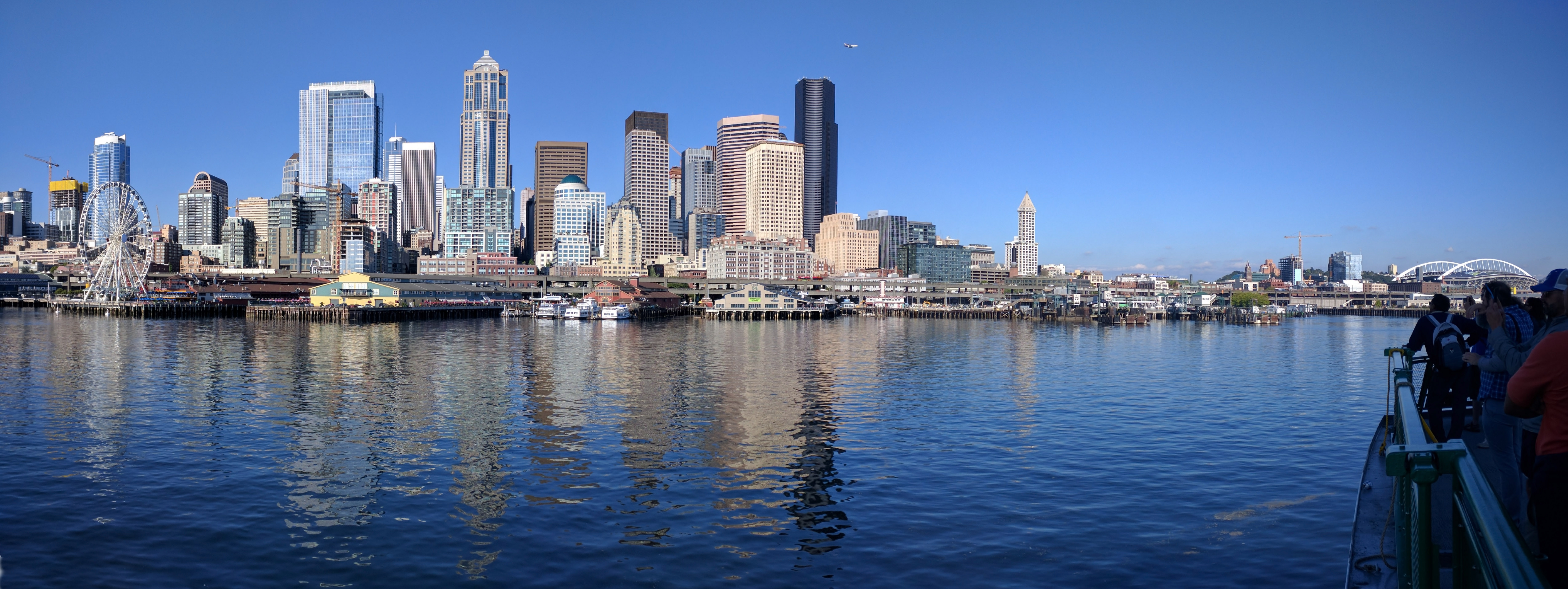 Seattle's waterfront as seen from the Bainbridge Island ferry, June 2016